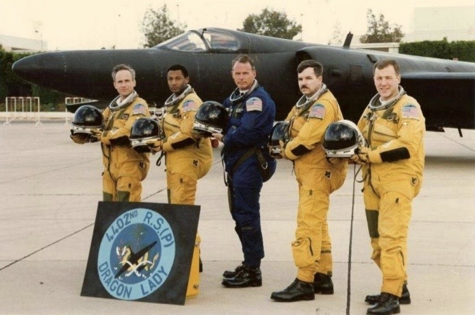 4402nd Reconnaissance Squadron (RS) "Desert Dragons" commander Lt. Colonel Charles P. Wilson II (in blue prototype S0134 pressure suit) and other pilots of the 4402nd RS (in gold S1031C suits) stand in from of a Lockheed U-2S at Taif Air Base in Saudi Arabia in 1994.